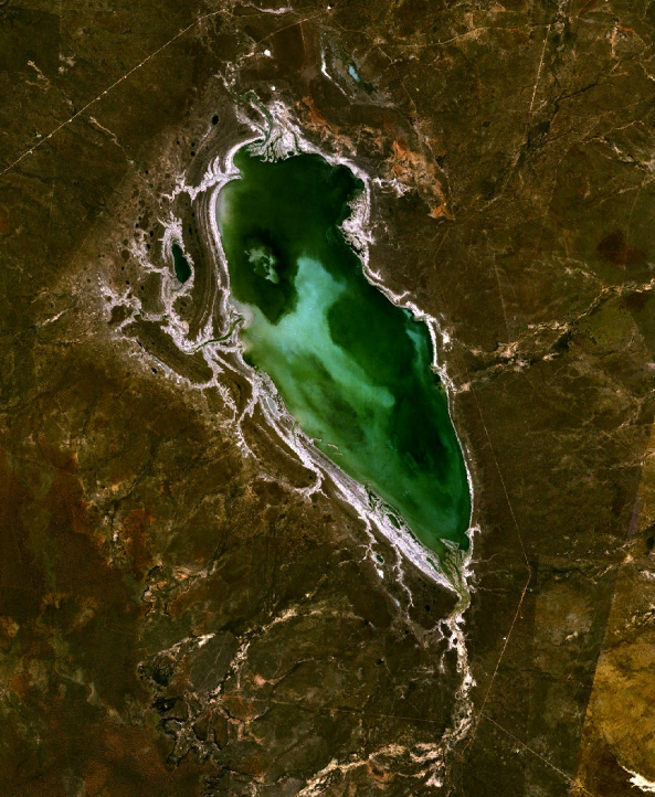 Lake Buchanan, as seen from space (via World Wind).